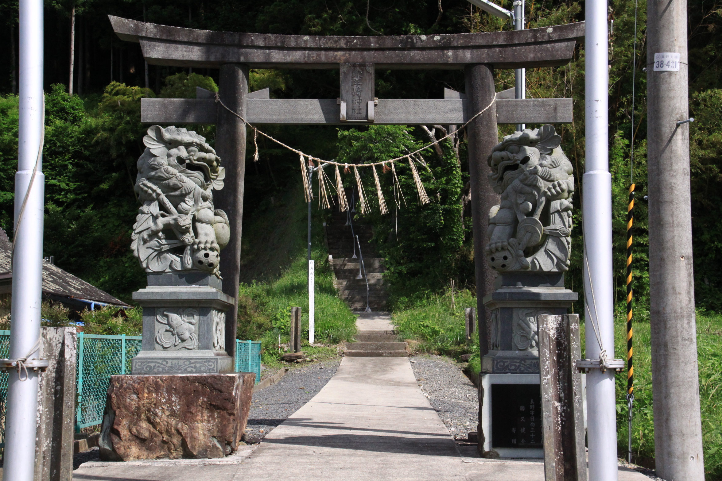 Hitsujisaki jinja Gate in Mano, Ishinomaki, Miyagi, Japan.